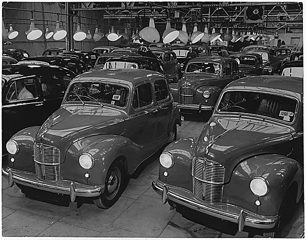 Austin A40s for the home and export market in the Austin works at Longbridge, Birmingham, England, United Kingdom, ca. 1947 - ca. 1952. The model at front left is a 2-door A40 Dorset. 4-door A40 Devon models can also be seen.